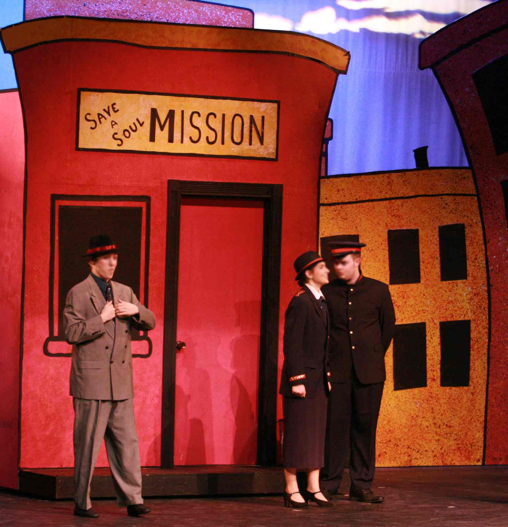 A scenery wagon used in a high school production of Guys and Dolls. The wagon's platform has a twelve foot tall, framed "building" constructed on top of it, with building exterior on one side and interior, complete with built-in bookshelf. A functioning, full-size door enables actors to pass through the structure between its interior and exterior personas. The wagon employs heavy-duty swivel casters so it can be rotated to face the interior or exterior toward the audience or rolled onstage or offstage. Two toggle clamp type wagon brakes are mounted to the wagon, one at each end, so that the set piece can be quickly "locked" to or "unlocked" from the stage.